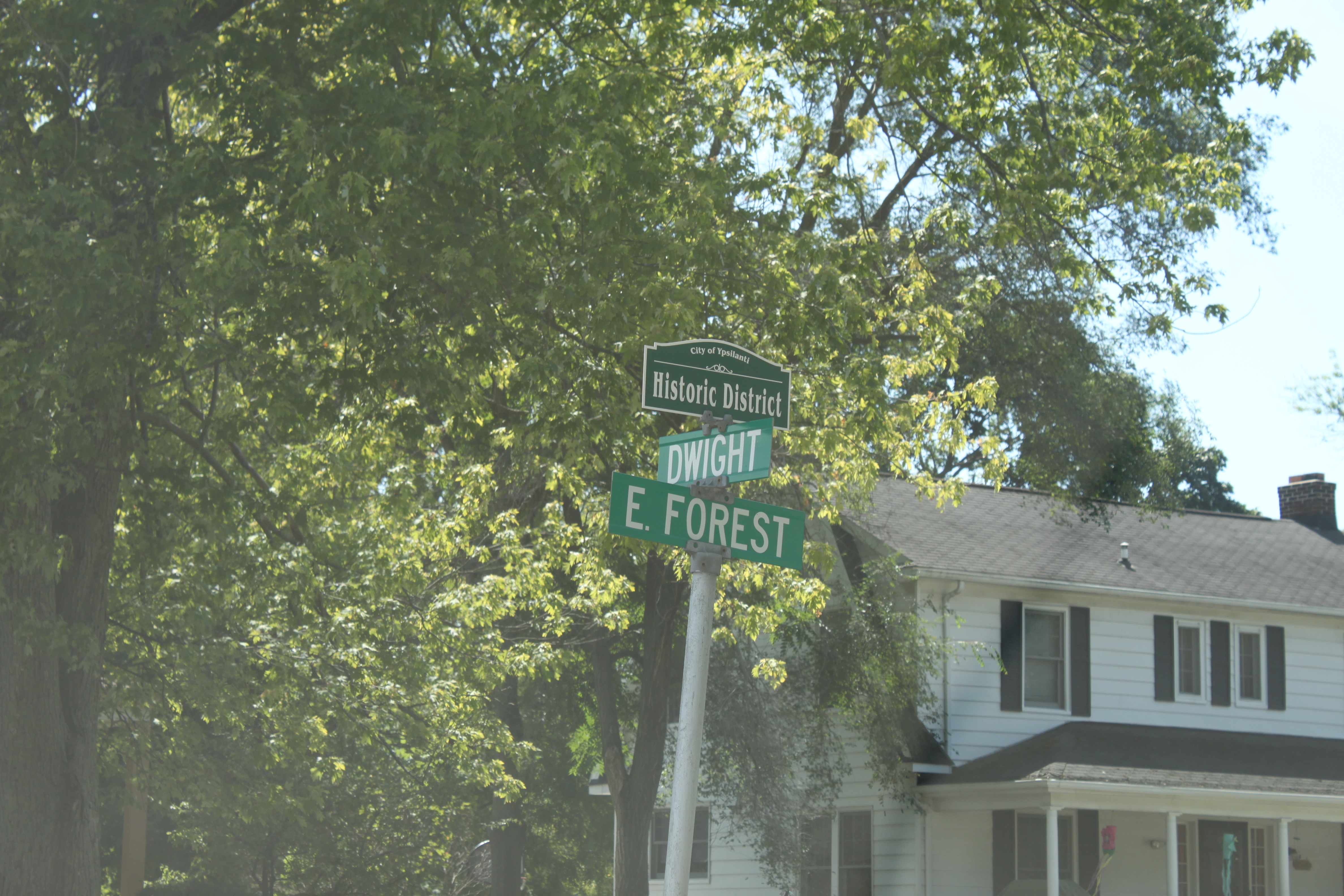 Historic district street sign, Dwight & East Forest streets, Ypsilanti, Michigan